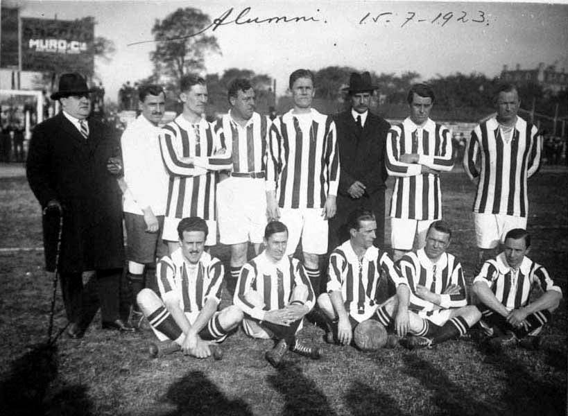 Former players of Argentine football team, "Alumni A.C.", reunited for a friendly match played at River Plate stadium. Alumni had been dissolved in 1913.